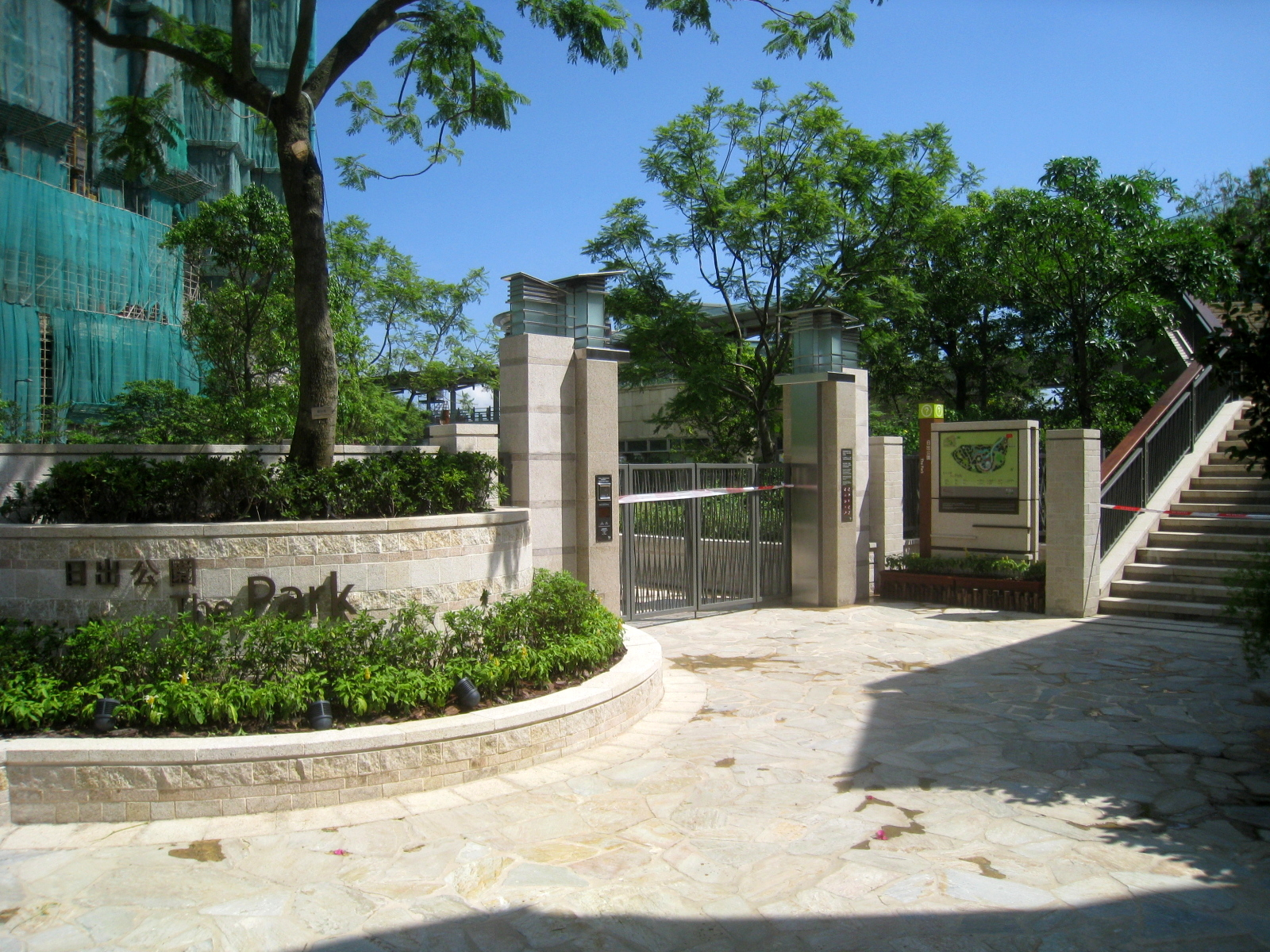 LOHAS Park The Park Enterance 日出康城 日出公園